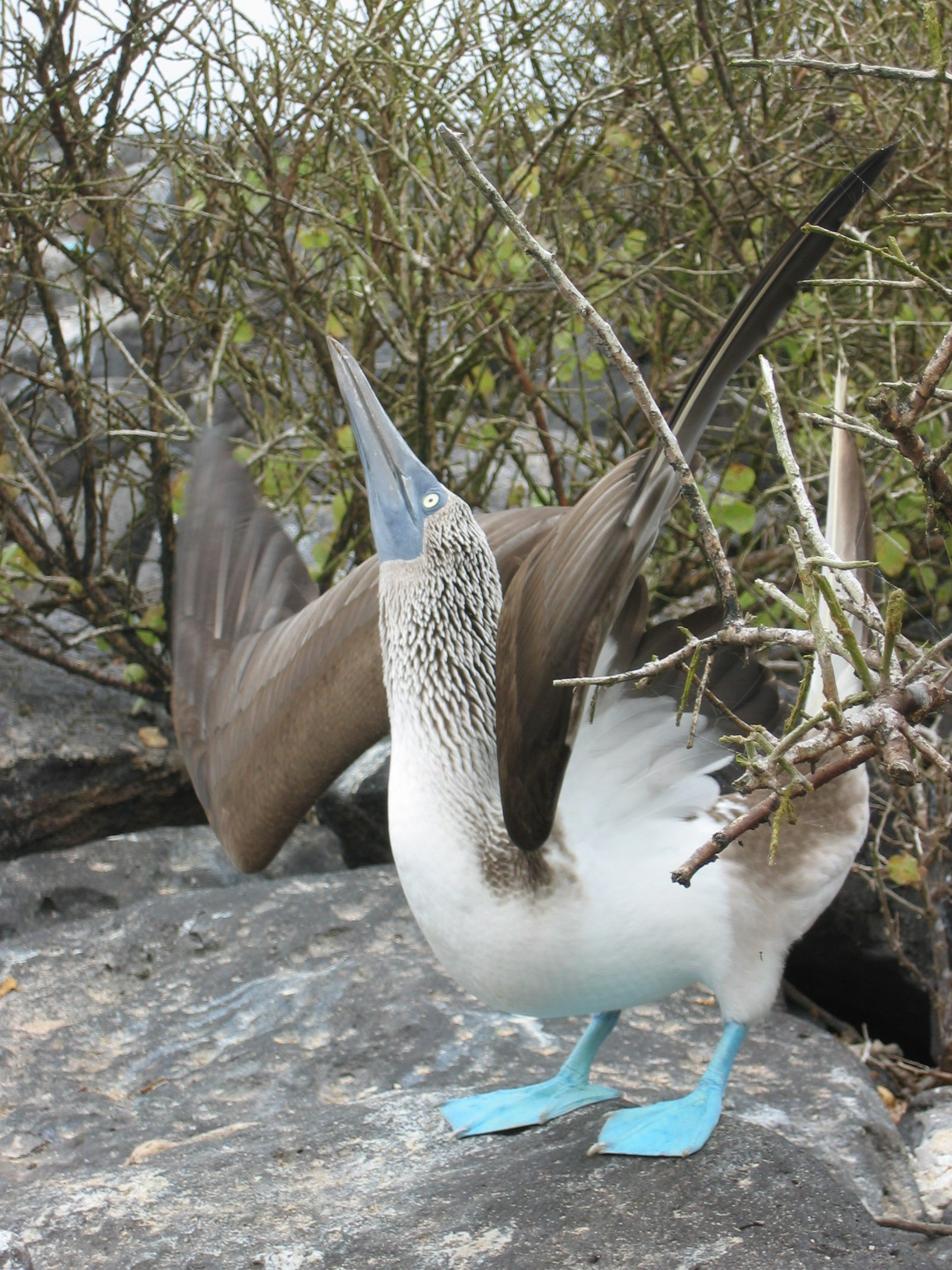 Male blue footed booby (Sula nebouxii) in courtship display. I took this picture on Espanola Island in the Galapagos in May 2007.